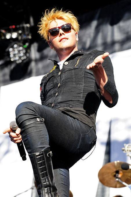 Big Day Out Festival 2012. Do Not Publish.